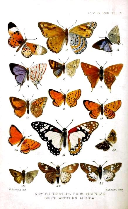 Trimen, 1891 On Butterflies collected in tropical South-Western Africa, by Mr. A. W. Eriksson Proc. zool. soc. Lond. 1891 Acraea ambigua n.sp. Plate IX. fig. 11 male accepted name Acraea acrita Hewitson, 1865 ssp. ambigua Trimen, 1891 Crenis natalensis Boisd., var. Plate IX. fig. 12 male accepted name Sallya natalensis (Boisduval, 1847) Deudorix obscurata, n. sp. Plate IX. fig. 13 male accepted name Pilodeudorix obscurata (Trimen, 1891) Hypolycena caeculus (Hopff.) Plate IX. fig. 14 male accepted name Hypolycaena caeculus (Hopffer, 1855)[1] Aphnaeus erikssoni n. sp. Plate IX. fig. 15 male accepted name Aphnaeus erikssoni Trimen, 1891 Aphnaeus modestus, n. sp. Plate IX. fig. 16 female accepted name Cigaritis modestus (Trimen, 1891) Zeritis damarensis, n. sp. Plate IX. fig. 17 male accepted name Aloeides damarensis (Trimen, 1891) Erikssonia acraeina Trimen, 1891 accepted name figs. 18-20 Papilio morania Plate IX. fig. 21, male now in Graphium accepted Graphium morania (Angas, 1849) Pyrgus secessus, n. sp. Plate IX. fig. 22 male accepted name Spialia secessus (Trimen, 1891) Pamphila obumbrata n. sp. Plate IX. fig. 23 male accepted name Gegenes hottentota Latreille, 1827 Abantis venosa Trim. Plate IX. fig. 24 male accepted name Abantis venosa Trimen, 1889[1] Pterygospidea jamesoni Plate IX. fig. 25 accepted name Calleagris jamesoni Sharpe, 1890